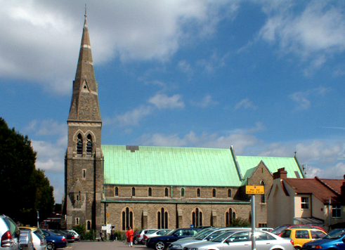 Christ Church parish church, Fairfield Road, Beckenham, London, seen from the south